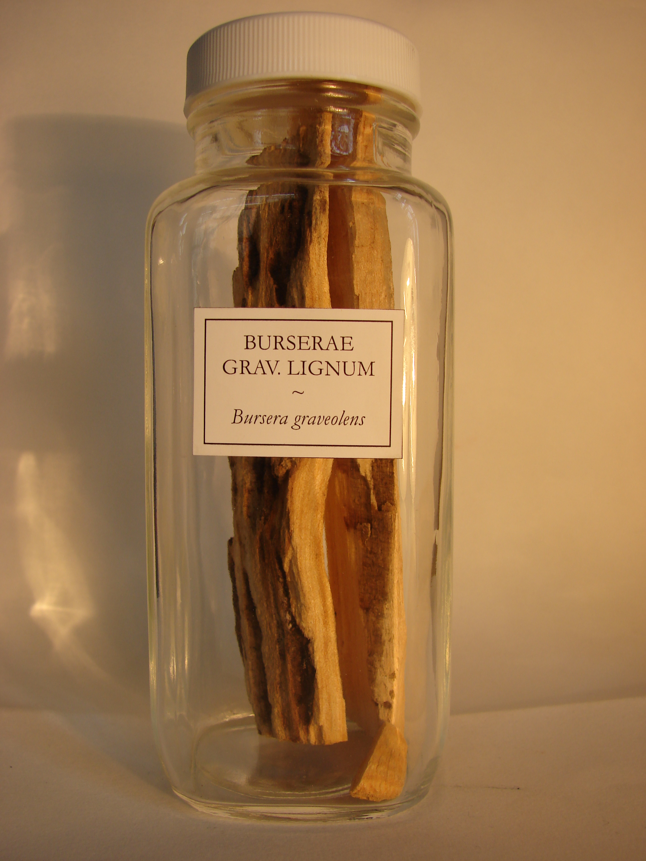 Burserae grav., Bursera graveolens